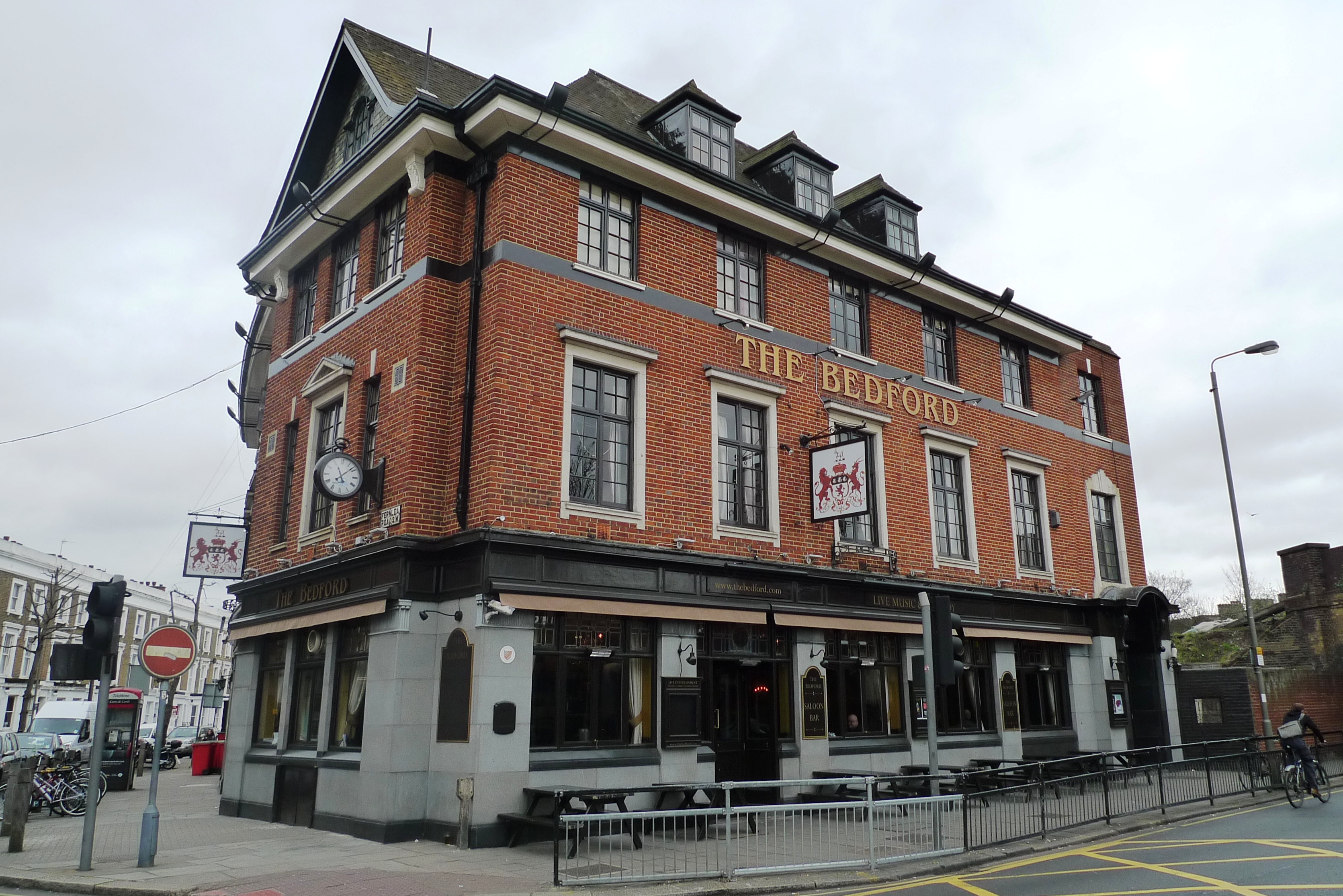 Grand old pub near the station and train lines. Address: 77 Bedford Hill. Former Name(s): The Bedford Hotel. Links: Randomness Guide to London Fancyapint Pubs Galore Beer in the Evening